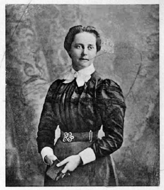 From In The Far east; Letters of Geraldine Guinness; by Lucy Evangeline Guinness; Morgan & Scott; 1901